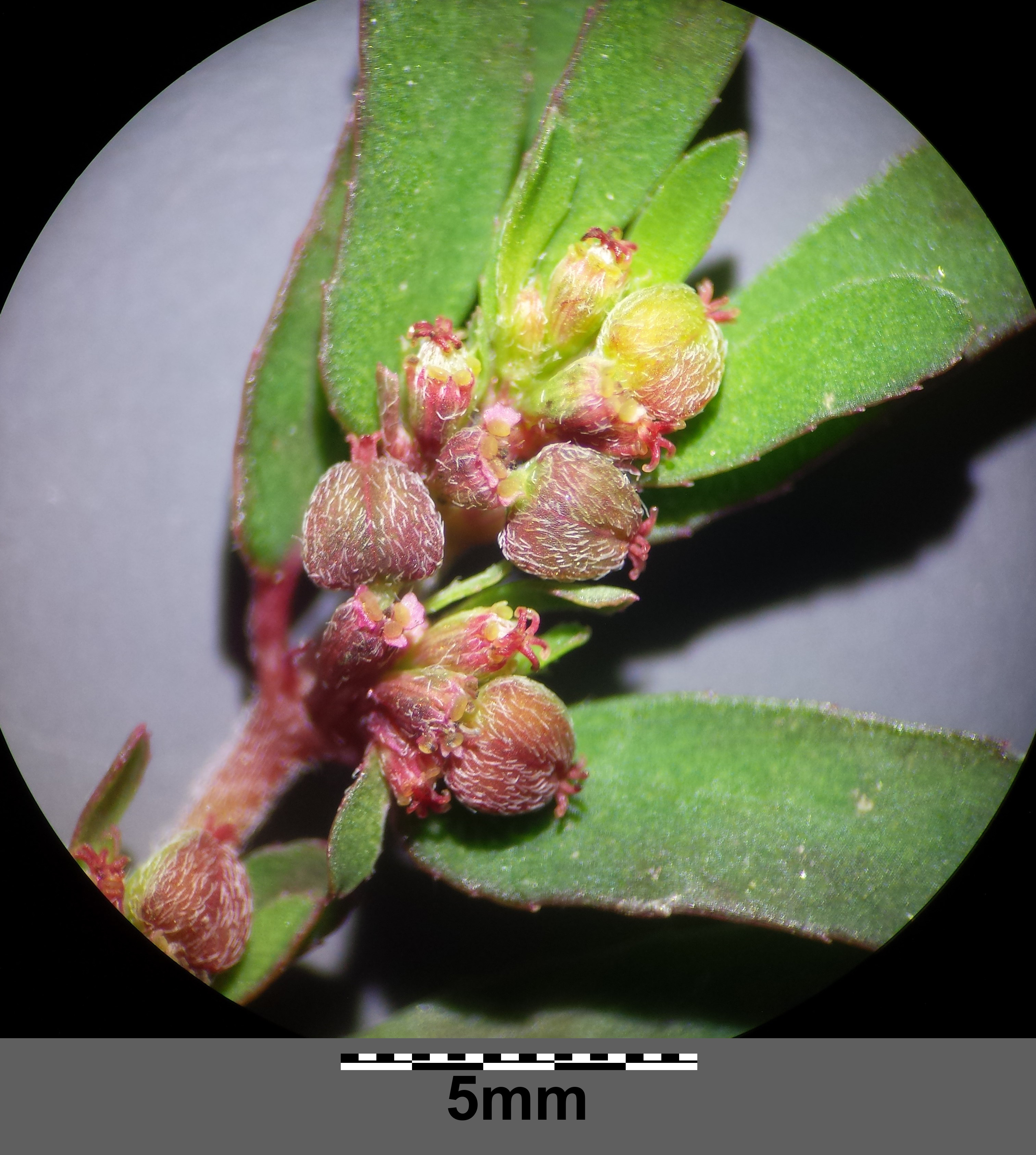 Infructescence, fruits with hairs on whole surface Taxonym: Euphorbia maculata ss Fischer et al. EfÖLS 2008 ISBN 978-3-85474-187-9 Location: next to Mitterreith, district Zwettl, Lower Austria - ca. 500 m a.s.l. Habitat: heap of stones